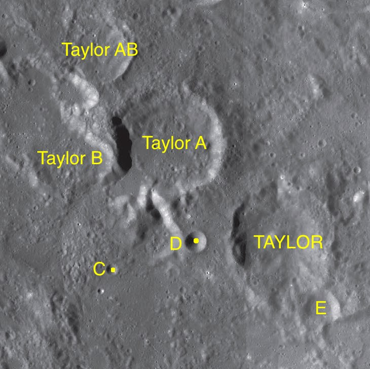 Part of the chart LAC-78 used for the presentation.